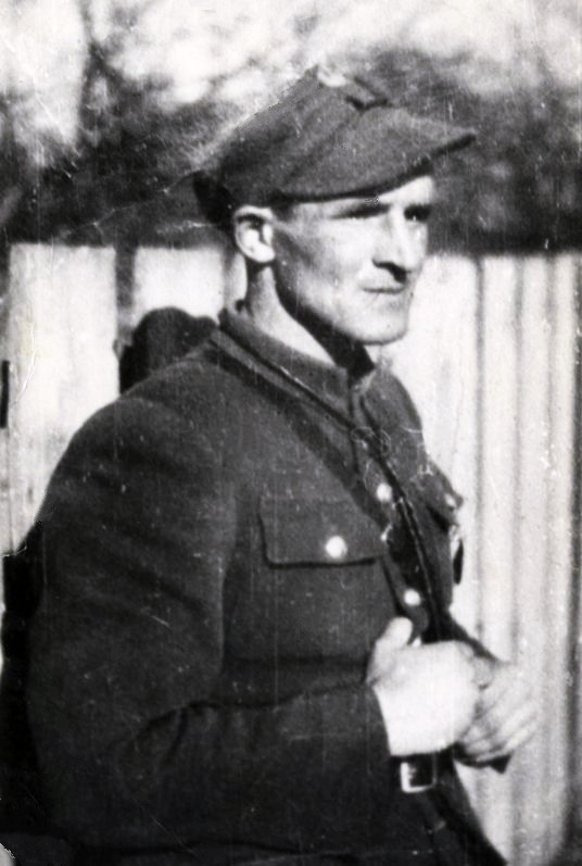 Stanisław Łukasik (1918-1949) – Polish partisan commander during WW II , Lieutnant of Armia Krajowa, soldier of anti-communist underground, after WW II, arrested, executed.